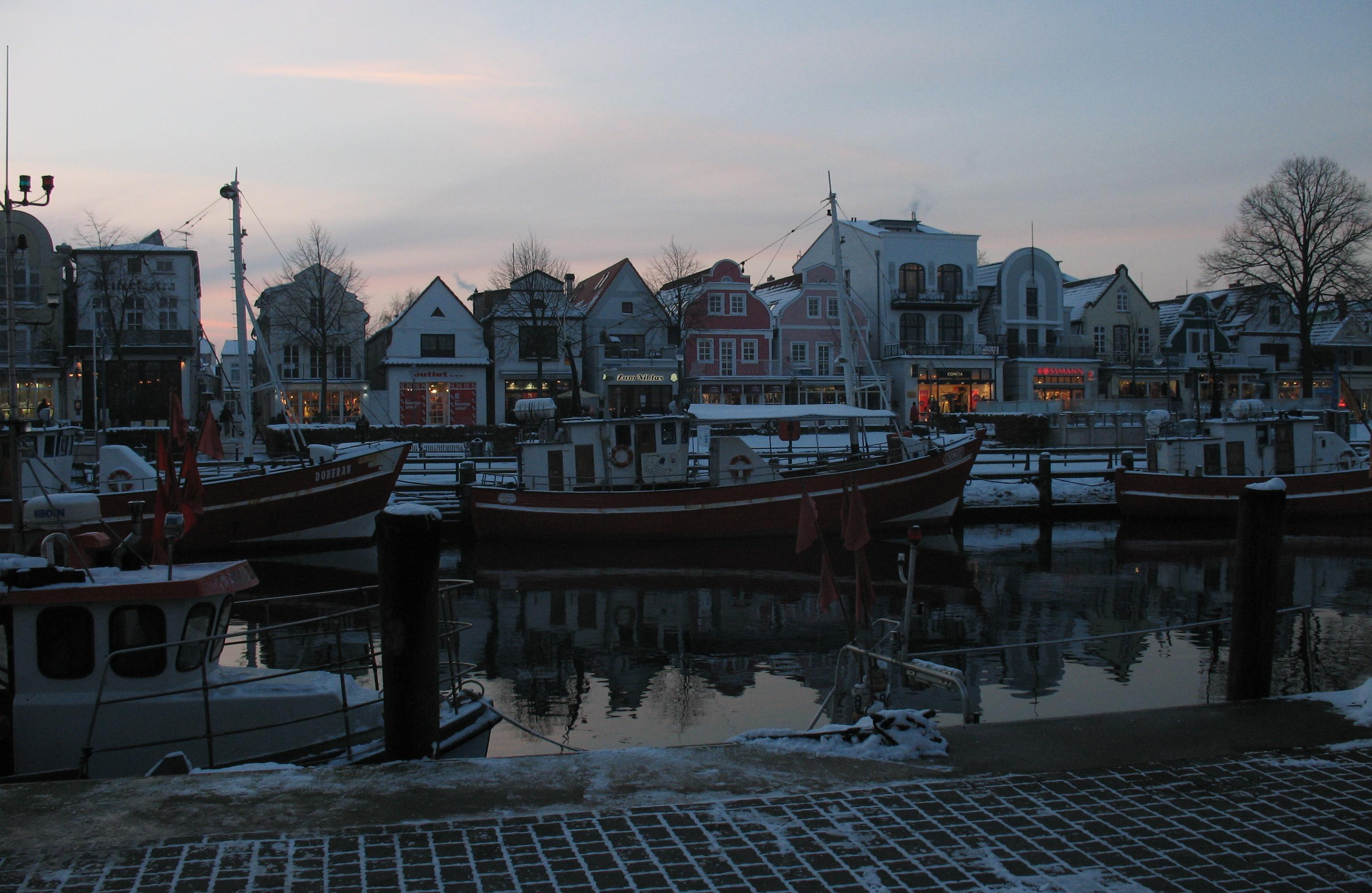 Alter Strom in Warnemünde in Mecklenburg-Western Pomerania, Germany